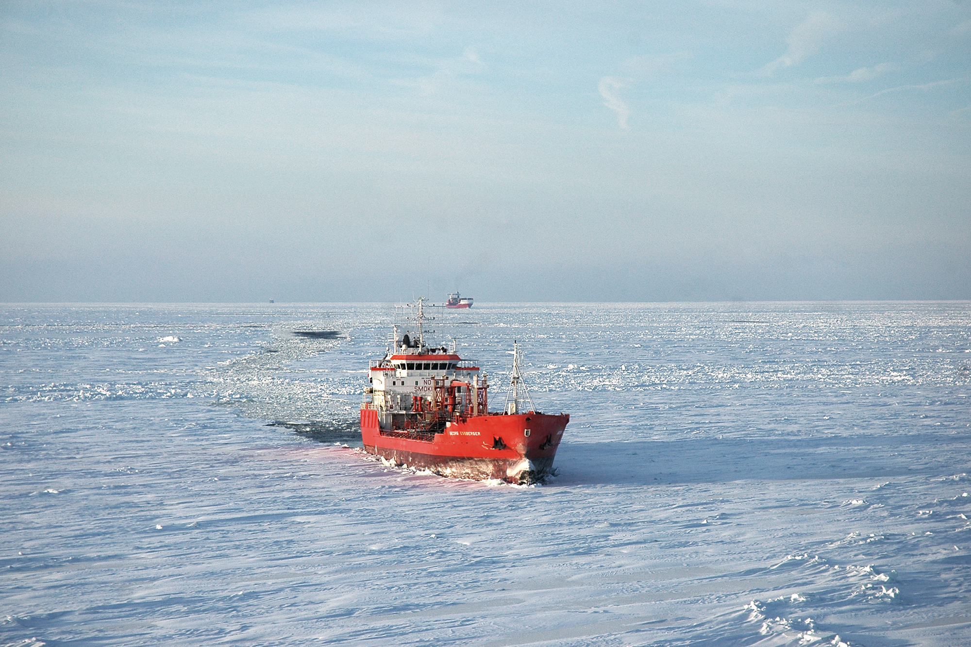 Product tanker Georg Essberger (IMO 9191175) and two other cargo ships in ice outside the port of Loviisa in the Gulf of Finland. Photographed from Finnish multipurpose icebreaker Nordica. IMO Number: 9191175 MMSI Number: 255735000 Callsign: CQSW Length: 100 m Beam: 17 m